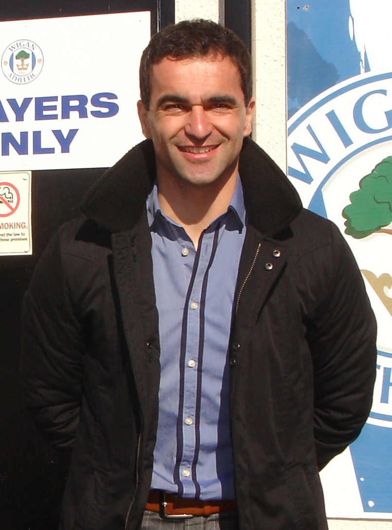 Roberto Martínez → This file has been extracted from another image: File:Robert Martínez.jpg.